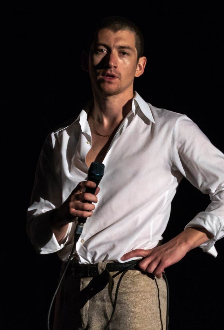 Alex Turner, Way Out West 2018 Gothenburg - Thursday 9th August 2018